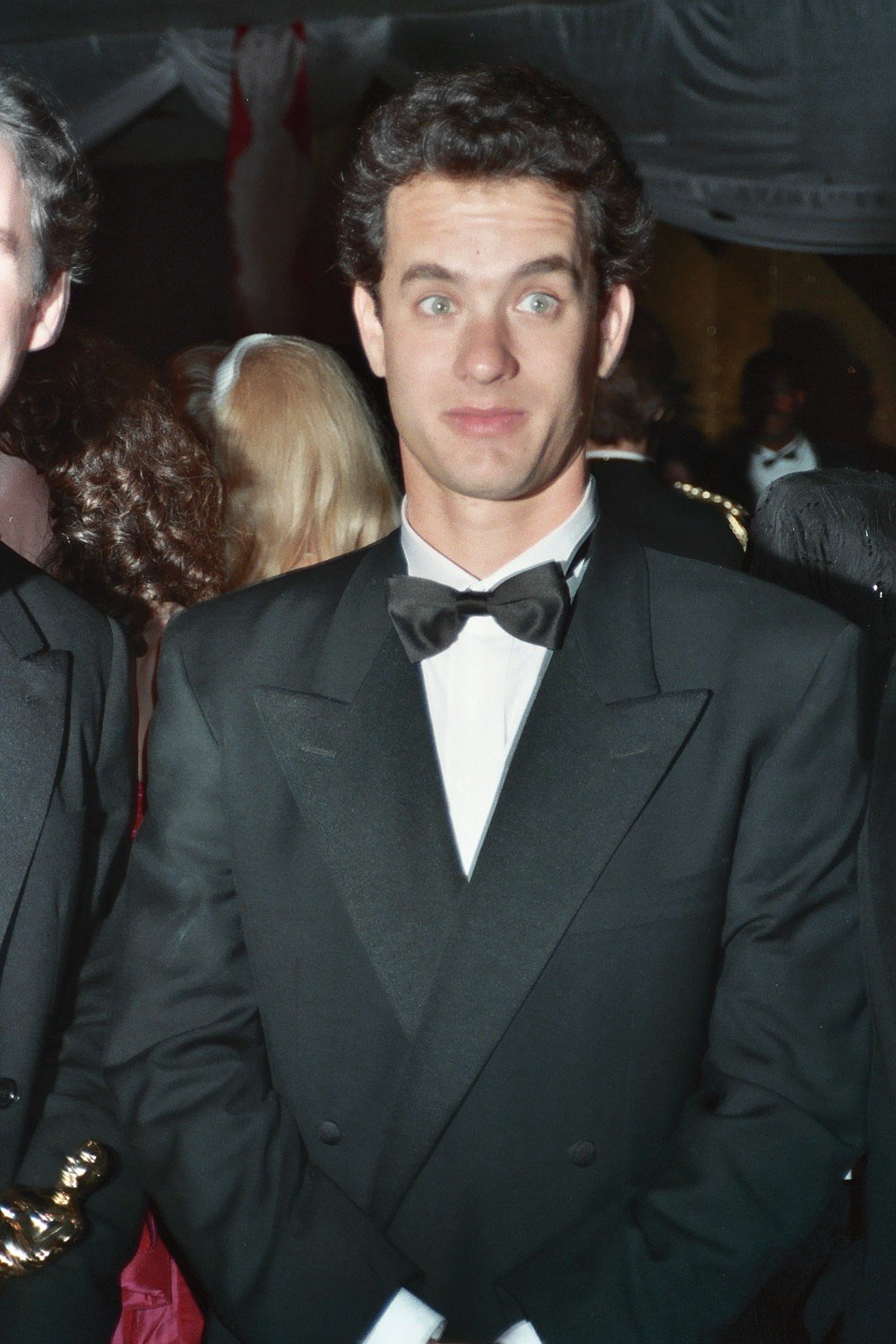 Tom Hanks at the Governor's Ball after the telecast of the 61st Annual Academy Awards, 1989.